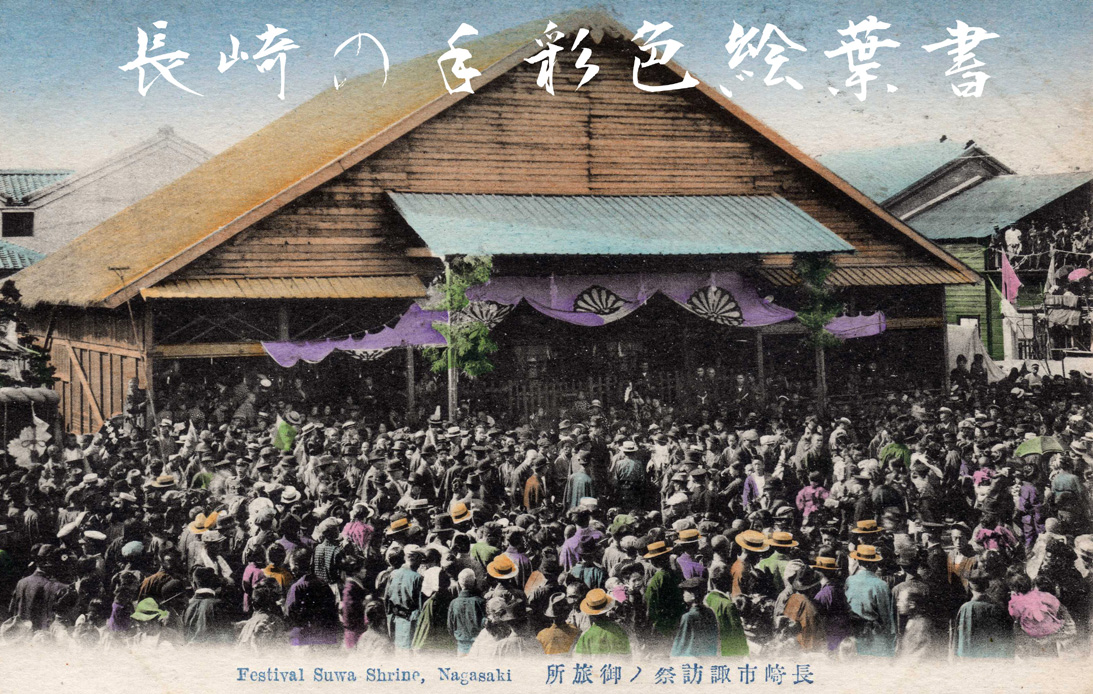 Japanese hand tinted postcard showing a festival at Suwa Shrine in Nagasaki